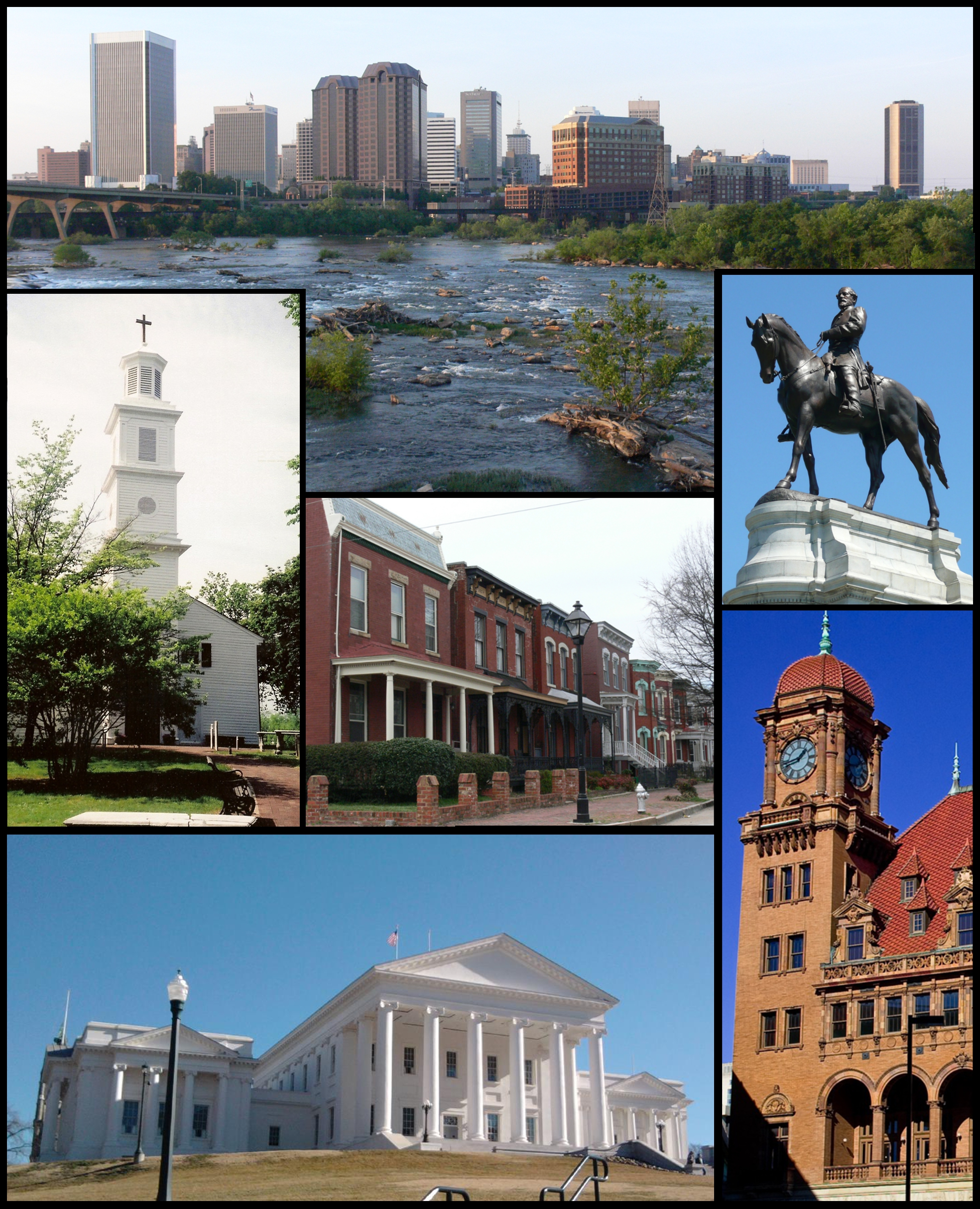 Main Street Station Category:Images of railway stations